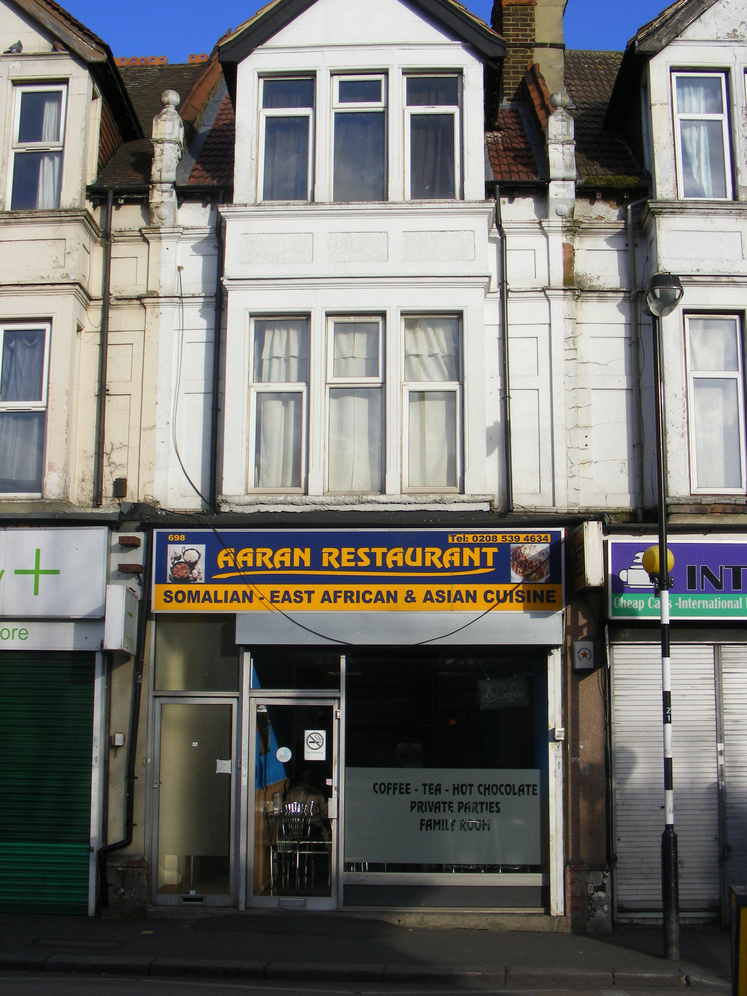 The Somali-owned Aaran Restaurant in Waltham Forest.